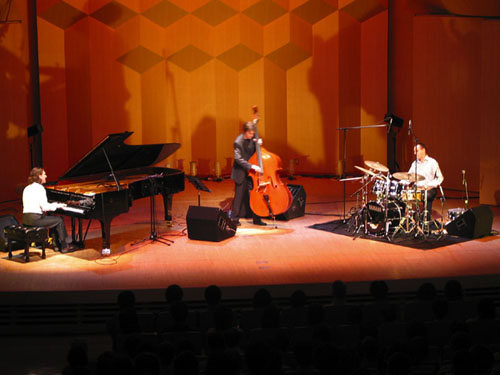 The European Jazz Trio